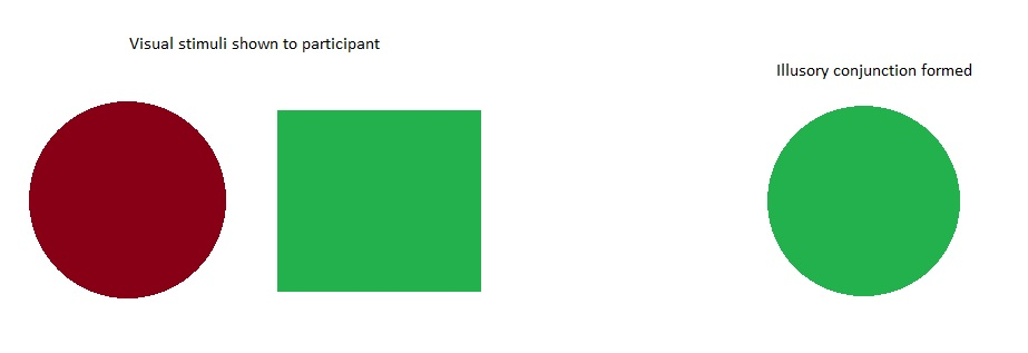 an example of an illusory conjunction formed when a red circle and green square are mistaken for a green circle